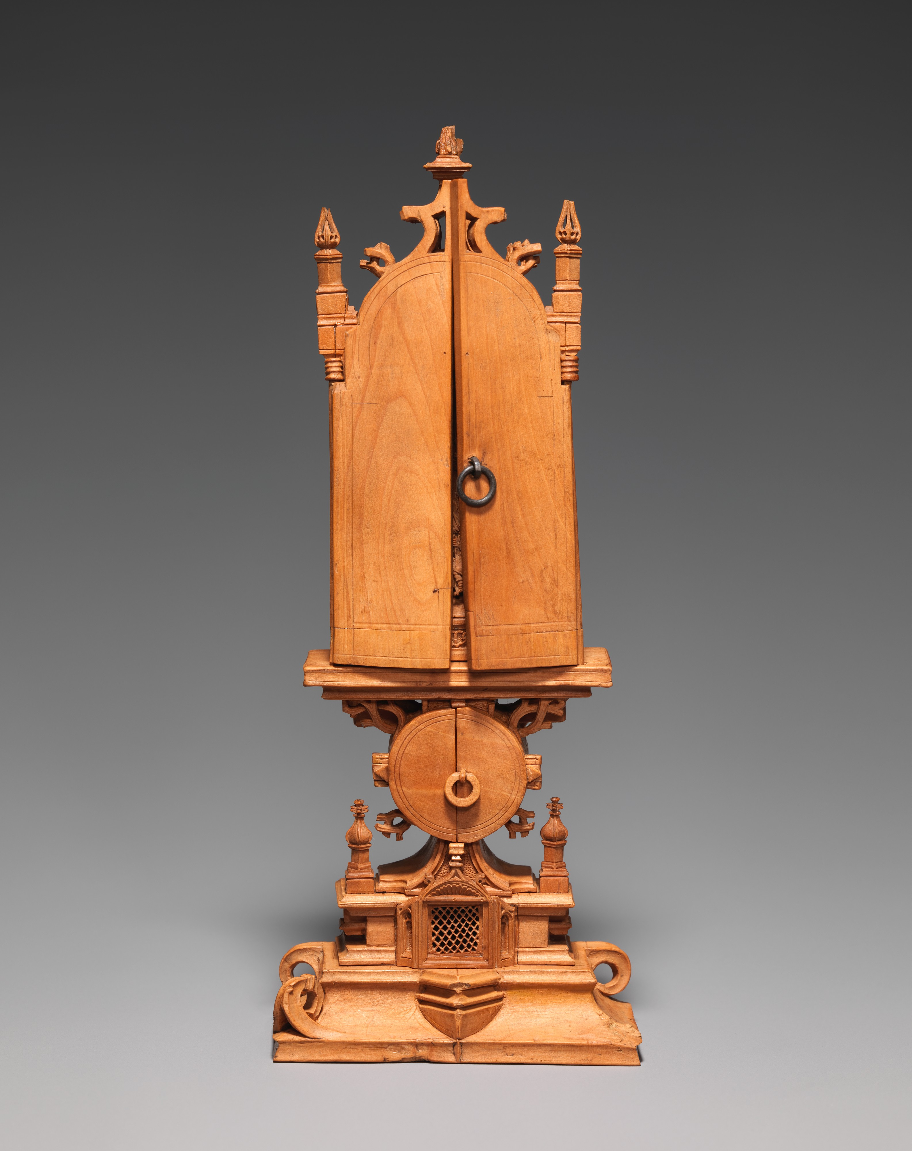 Netherlandish; Triptych; Sculpture-Miniature-Wood